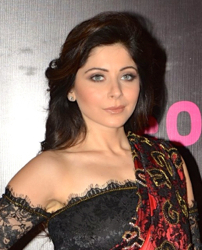 Singer Kanika Kapoor at 21st Annual Screen Awards.